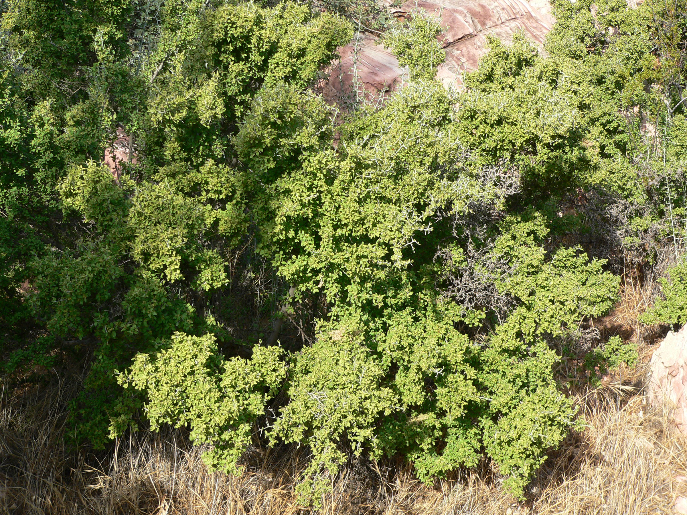 Ziziphus obtusifolia var. canescens at Red Spring, Calico Basin, Spring Mountains, southern Nevada (elev. about 1100 m)